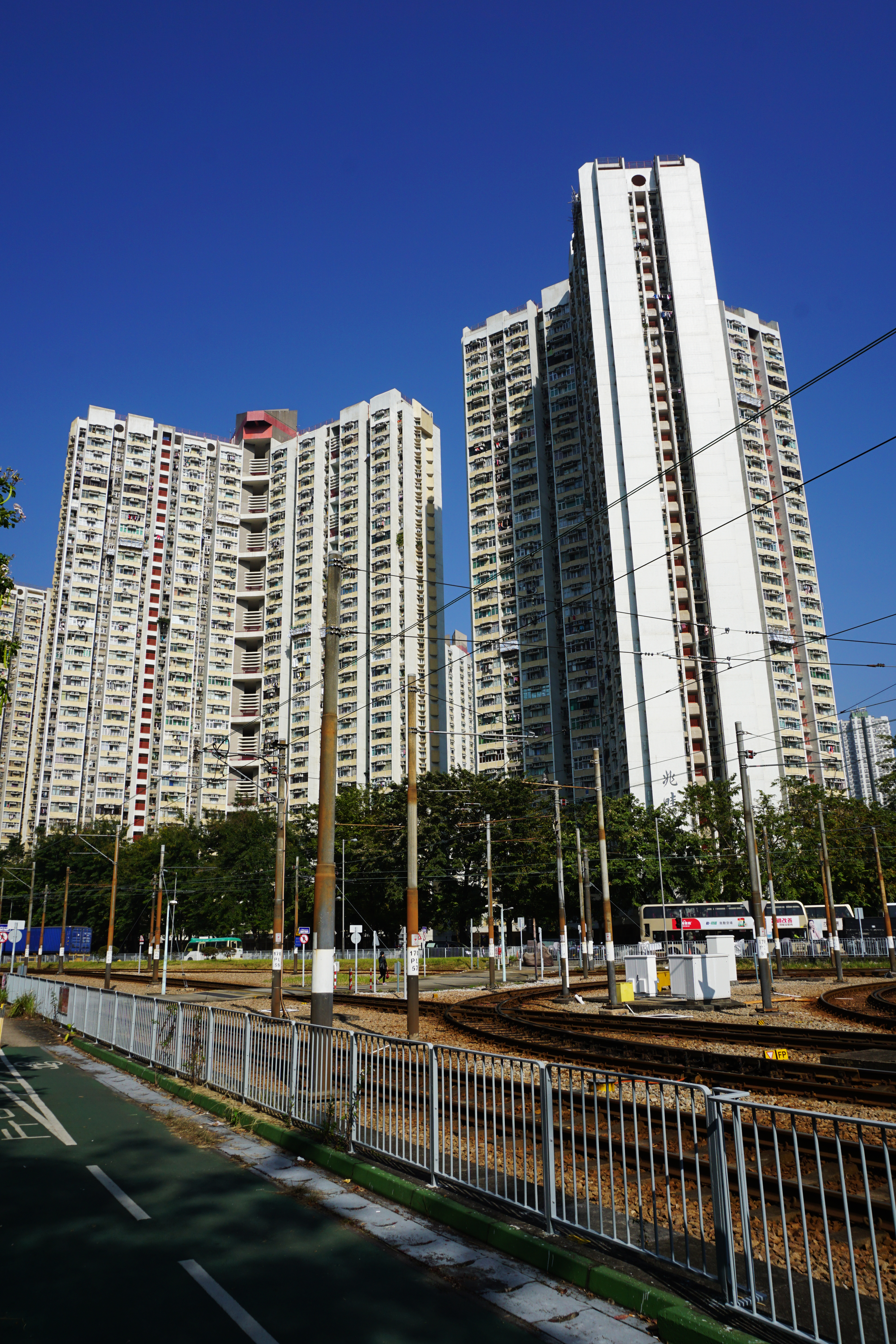 Siu Kwai Court in Tuen Mun, Hong Kong.